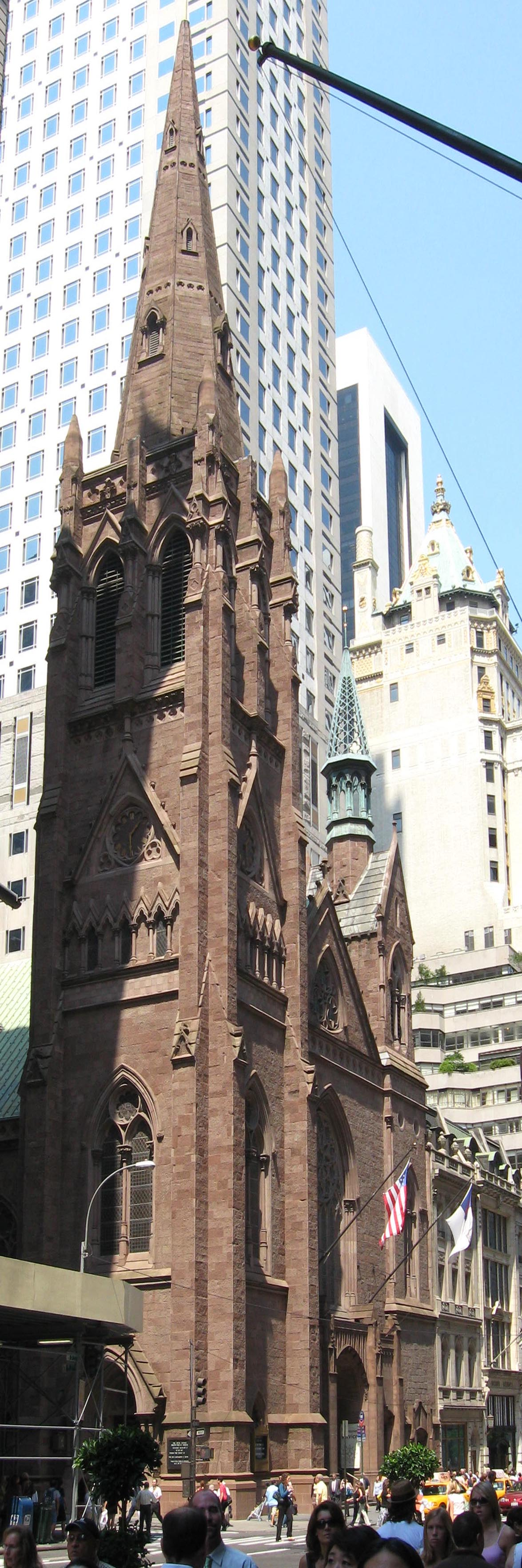 Looking north at Fifth Avenue Presbyterian Church on a sunny early afternoon